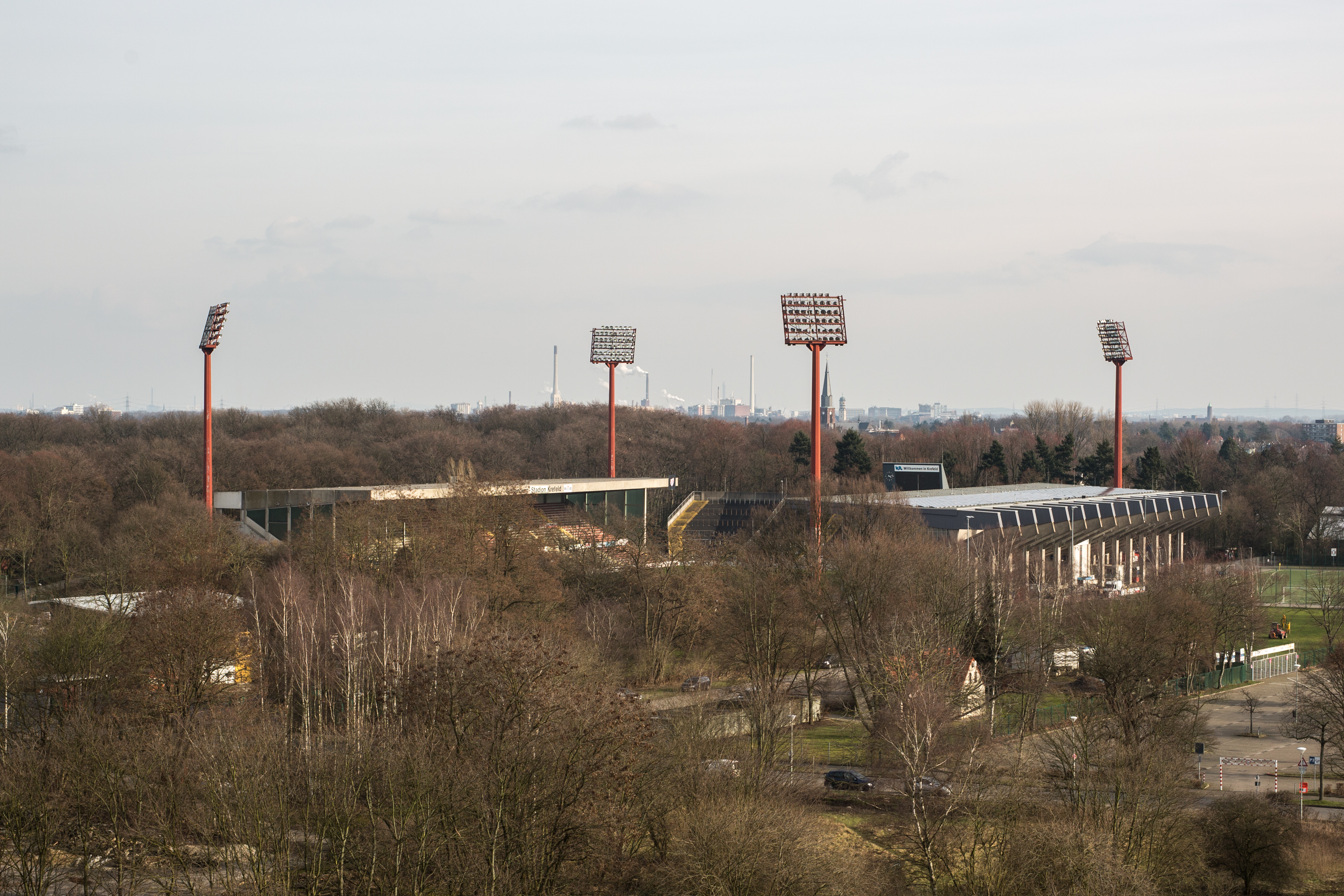 Grotenburg-Stadion